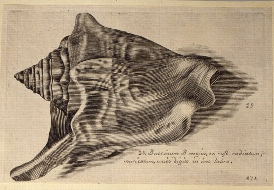 Strombis tricornis by Anne Lister for Martin Listers book Historiae Conchyliorum in 1685-1692